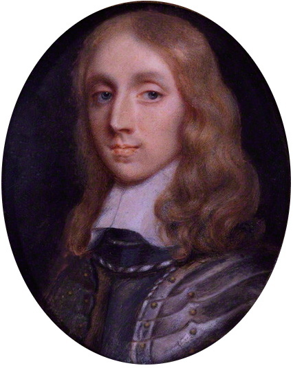 Portrait of Richard Cromwell (1626 – 1712) who was the second Lord Protector of the Commonwealth of England.